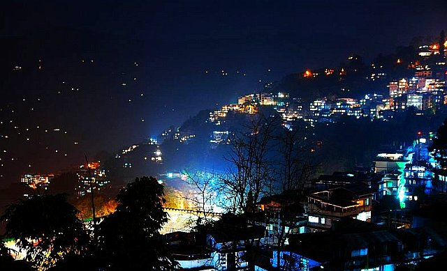 A night shot of Gangtok City